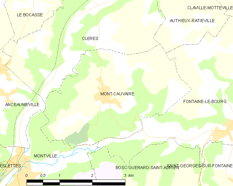 Map of French municipality Mont-Cauvaire